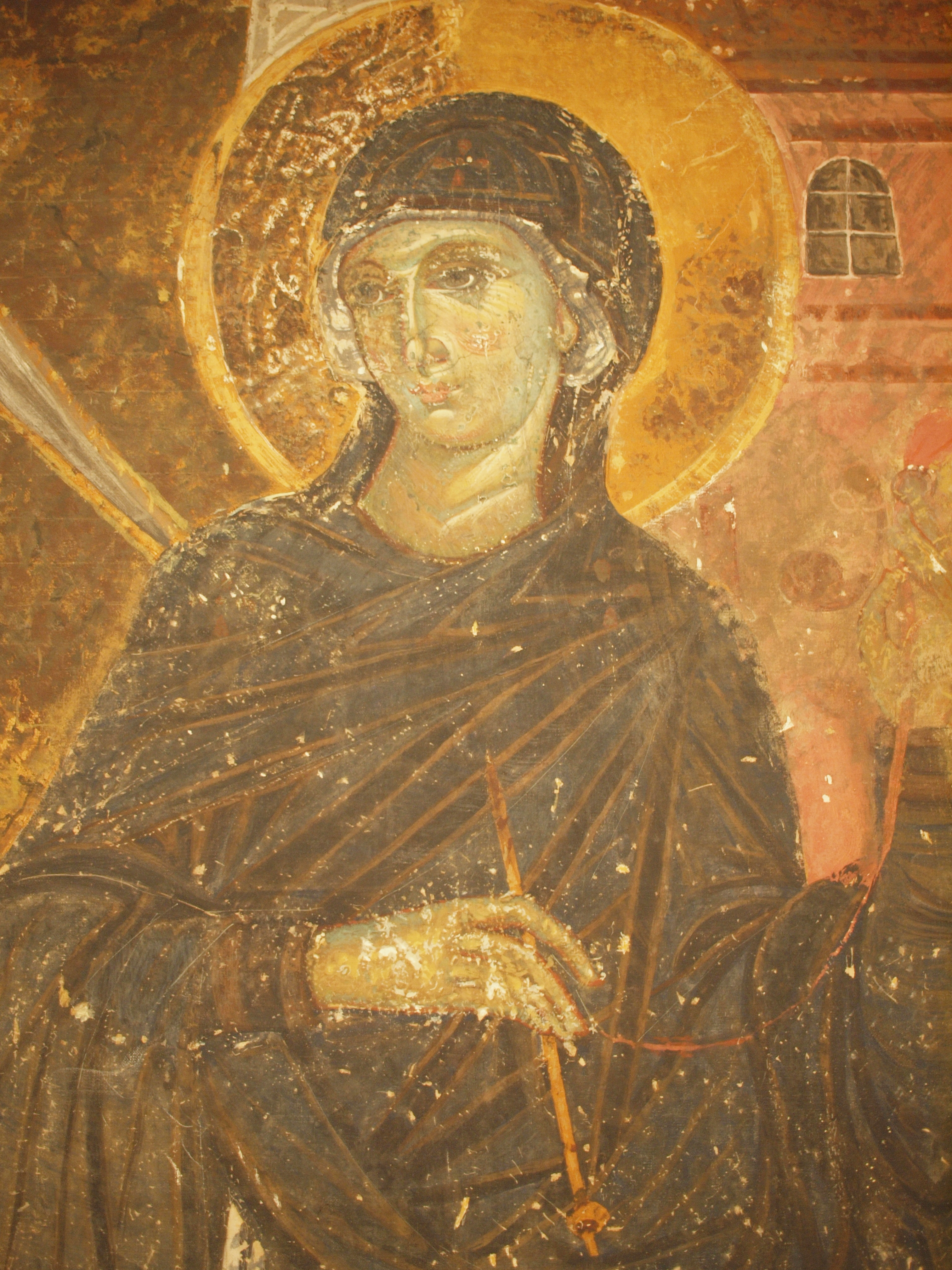 Annunciation Mileševa Monastery